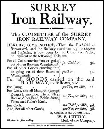 Poster giving tolls for the Surrey Iron Railway dated June 1st , 1804.